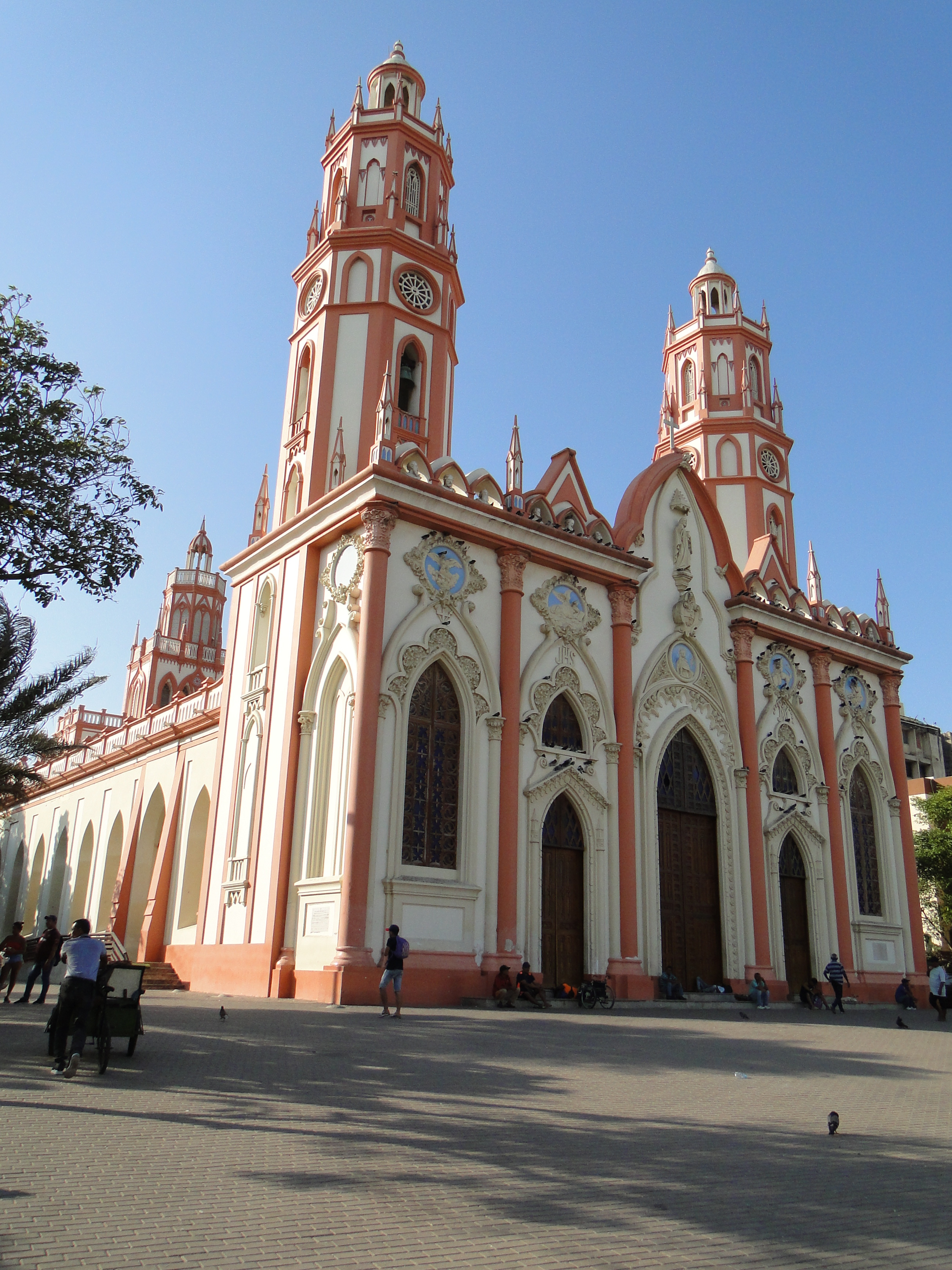 Church of St. Nicholas, Barankilya